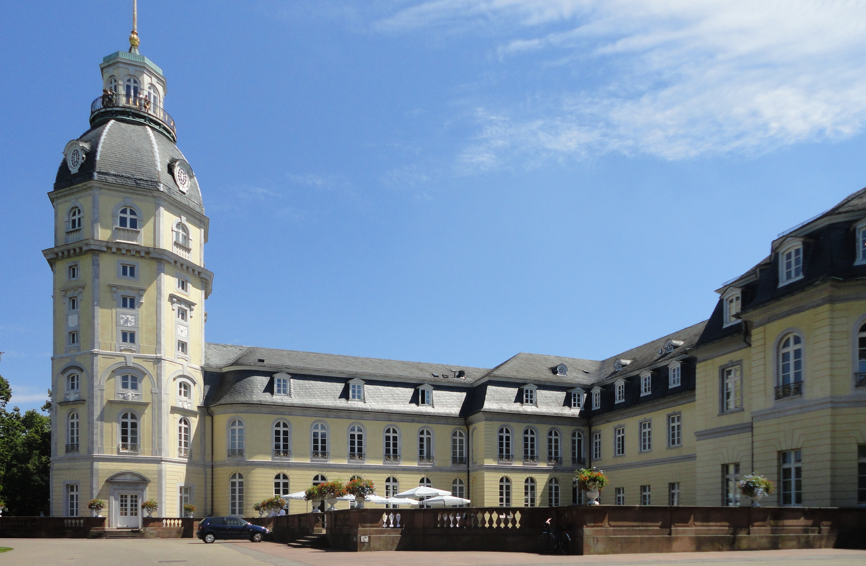 Castle Karlsruhe, tower and back viewHrvatski: Dvorac Karlsruhe, toranj i stražnja strana